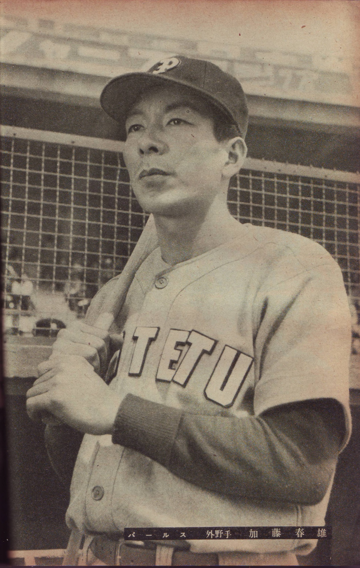 Haruo Kato (Kintetsu Pearls). taken in 1950.